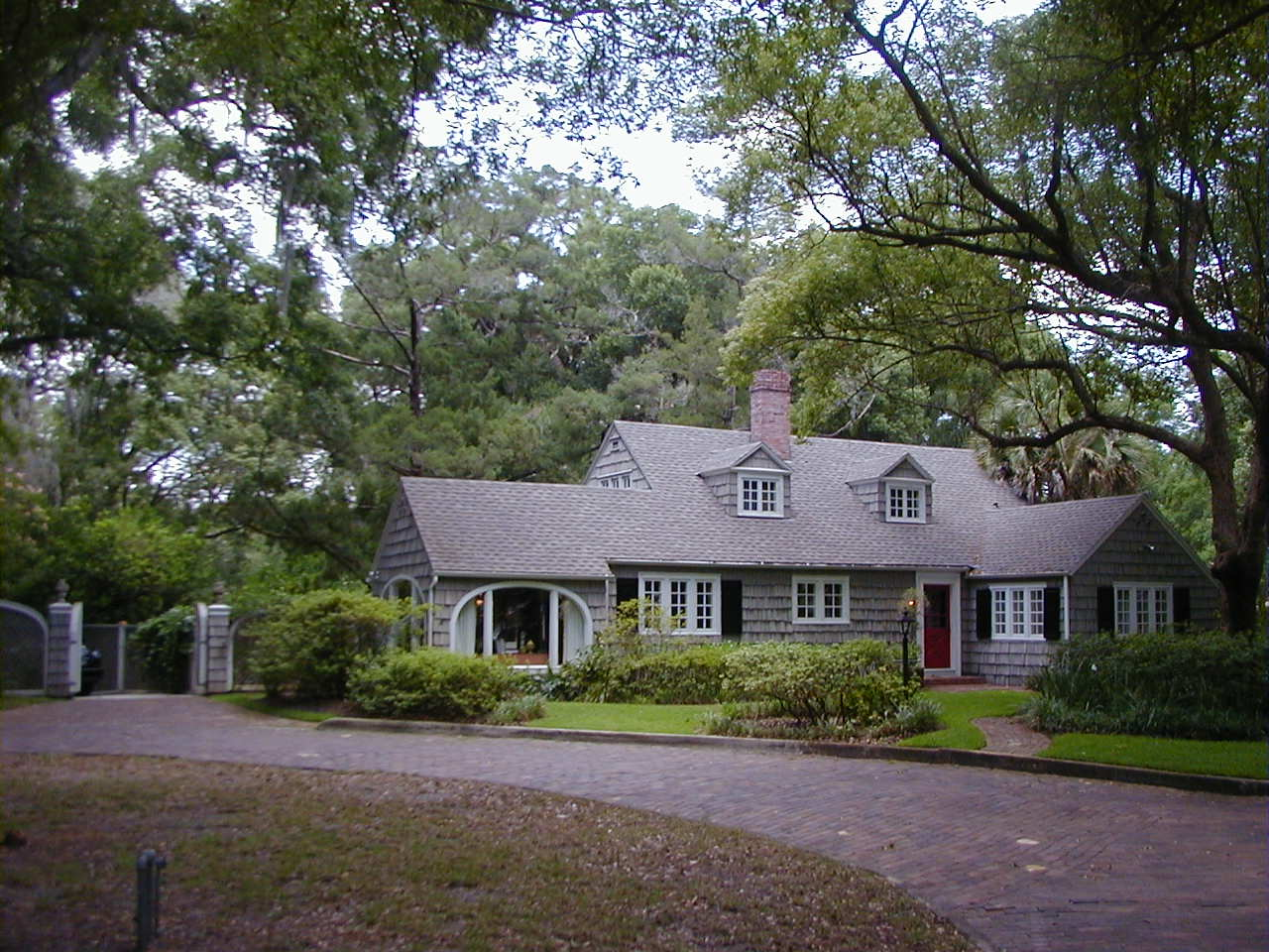 James Gamble Rogers II house he designed